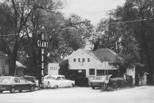 Red's as it looked in the late 70's to early 80's